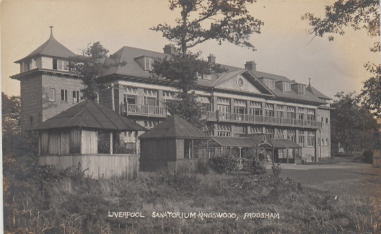 Old postcard of Liverpool Sanitorium at Kingswood, Frodsham